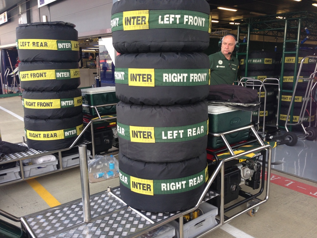 Formula One tires in tire warmers at the 2013 British Grand Prix